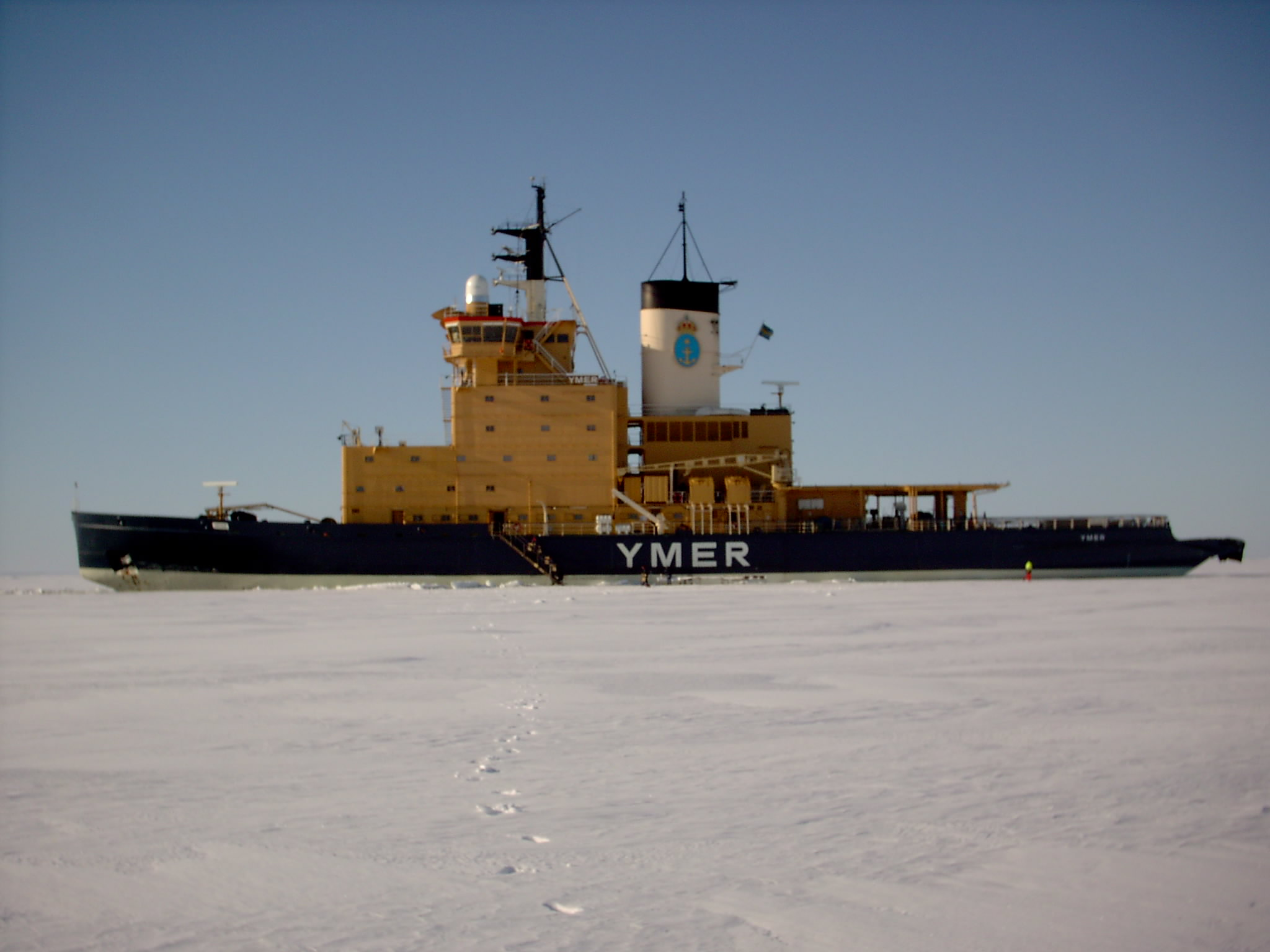 Ymer, SDIA, IMO: 7505346, laying idle in the ice.